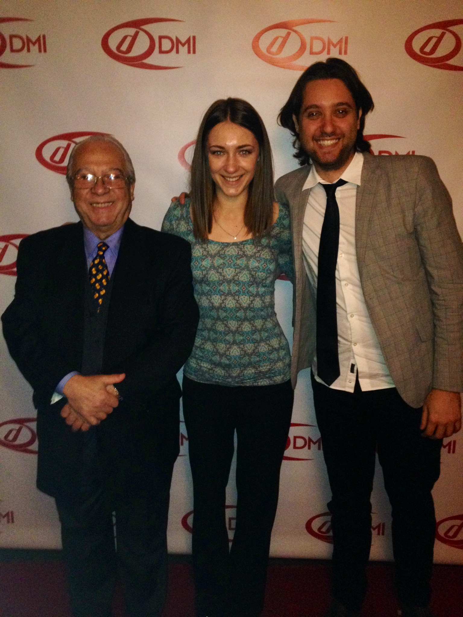 27 time Grammy and 2 time Academy Award nominated Producer & Arranger Jorge Calandrelli, multi award winning Composer & Pianist Sonya Belousova and composer Giona Ostinelli at the DMI Grammy Party